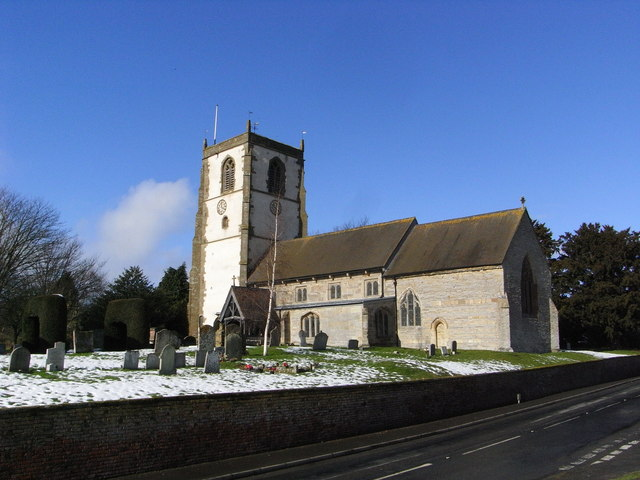 Parish church of St Kenelm, Upton Snodsbury, seen from the southeast